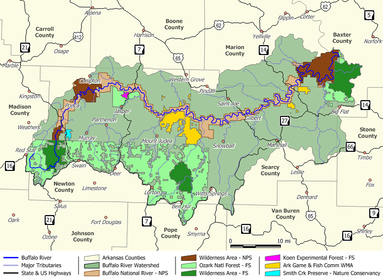 Map of Buffalo River watershed showing lands under State Government, Federal Government, and Nature Conservancy Management. FS=U.S. Forest Service, NPS=National Park Service, WMA=Wildlife Management Area.